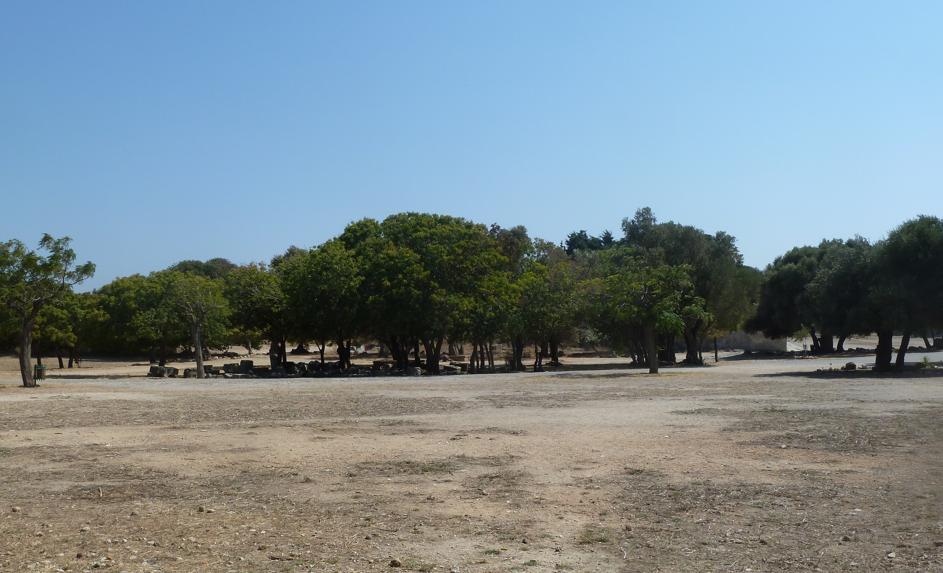 Acropolis, Rhodes, Greece 2014